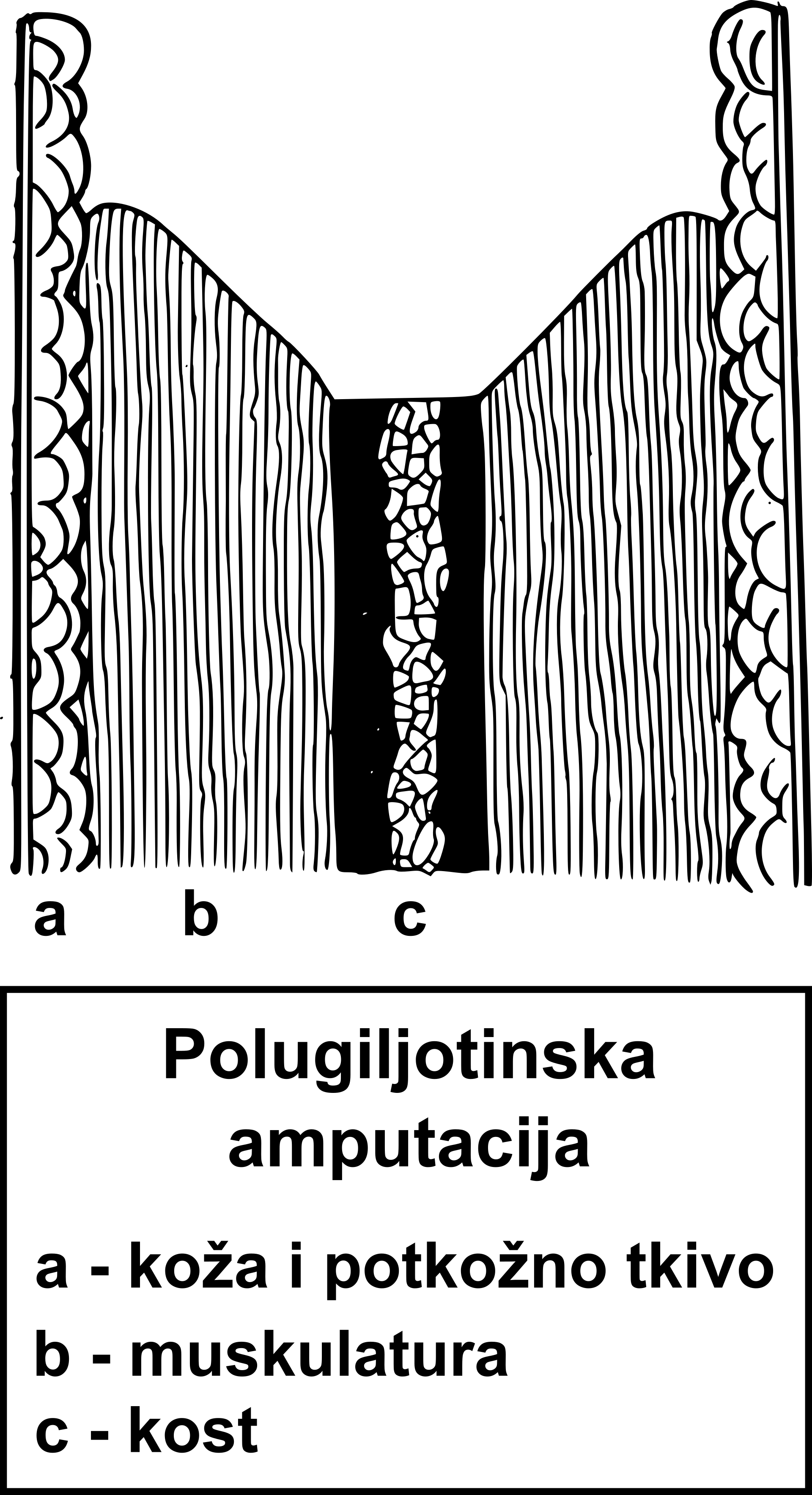 Half-guillotine amputation